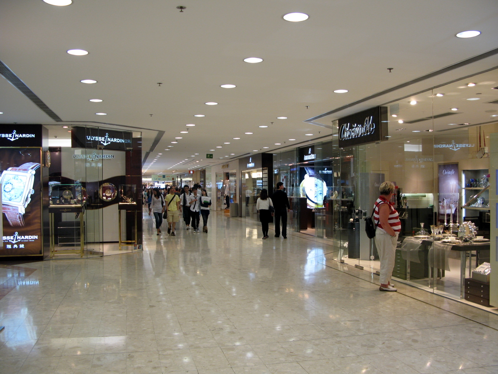 HK Ocean Terminal Level 2 Access 海運大廈2樓